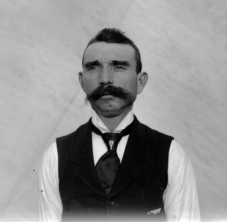 Ivy Baldwin poses near his balloon at Elitch Gardens in Denver, Colorado.